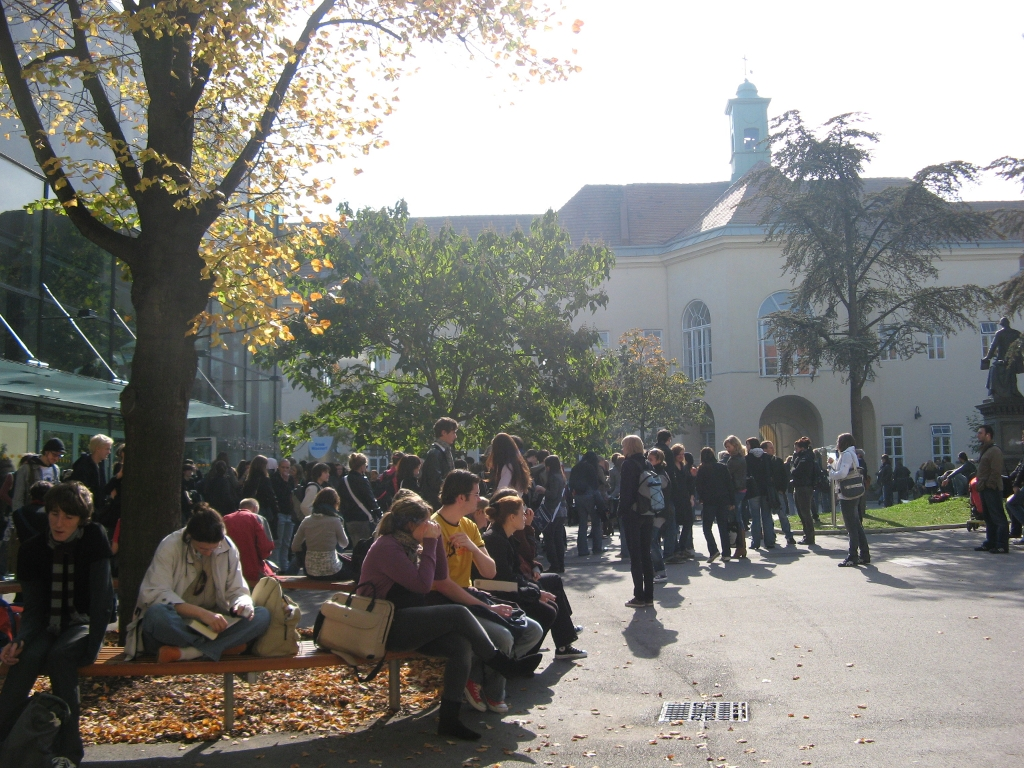 studants at University of Vienna Hörsaalzentrum Hof 2 at the old general hospital.